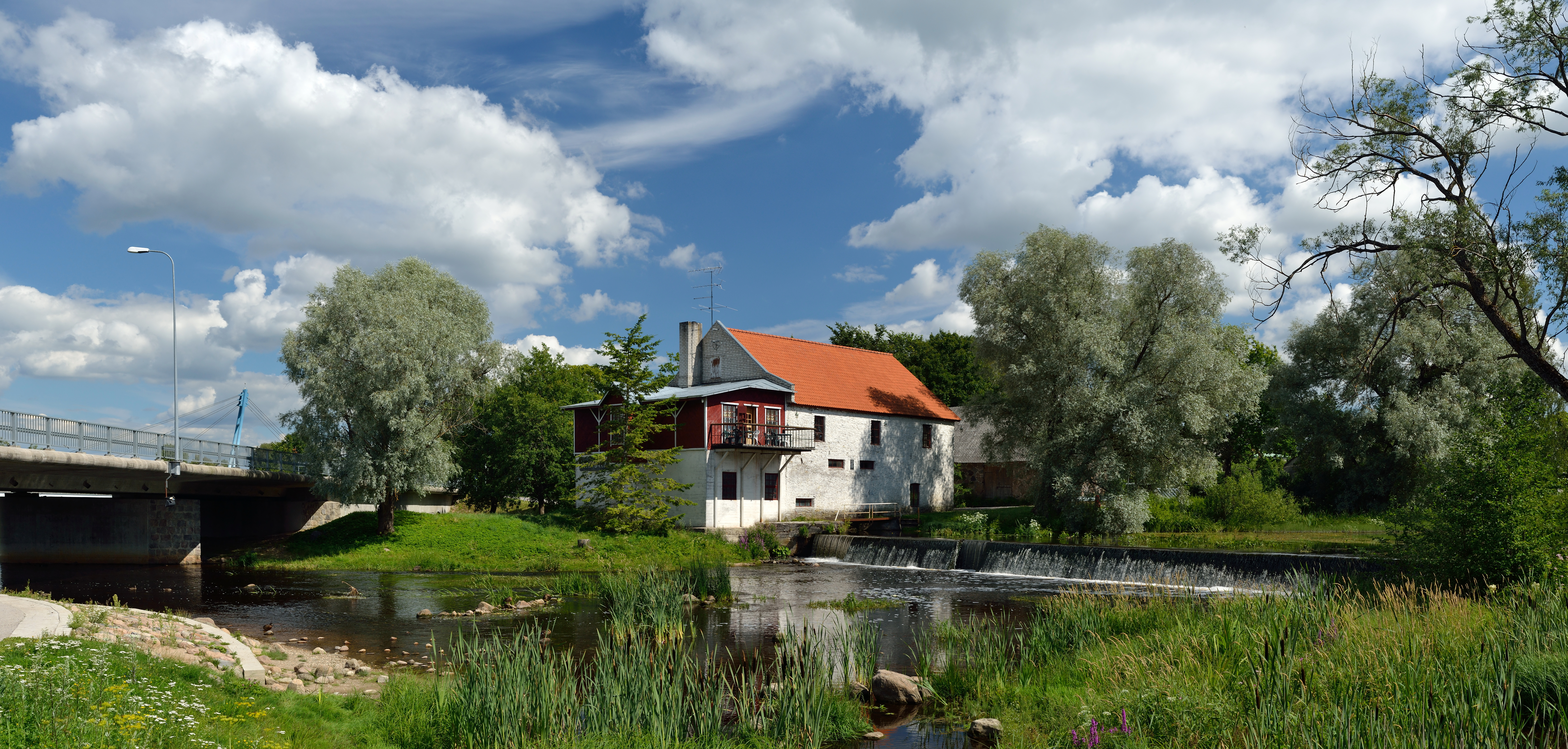 Kohila watermill with dam on Keila river, built in 1875. Today used as a tavern.